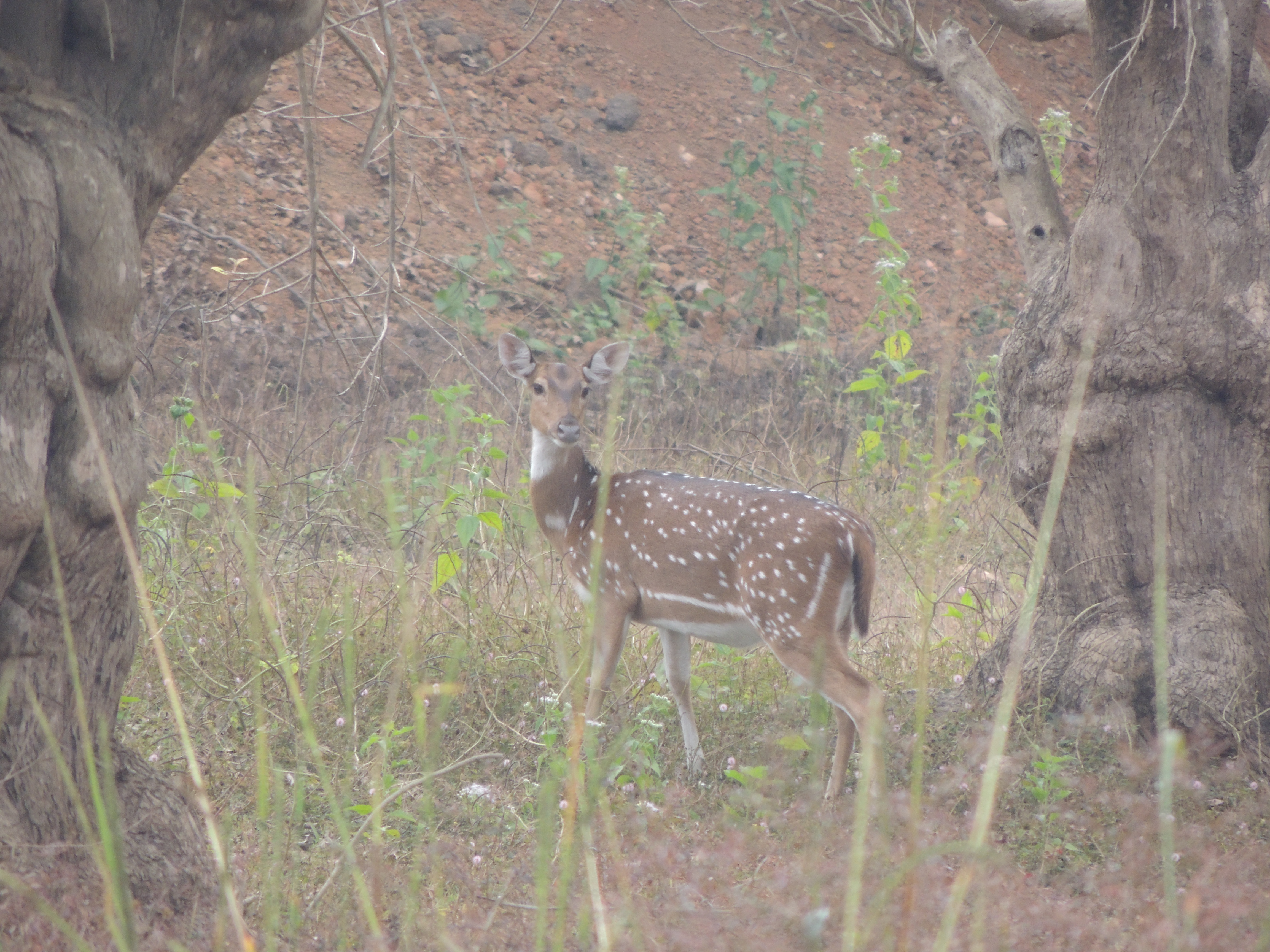 mundgod with good forest cover around it hosts rich flora and fauna. this is a spotted dear spotted near malgi village of mundgod taluk